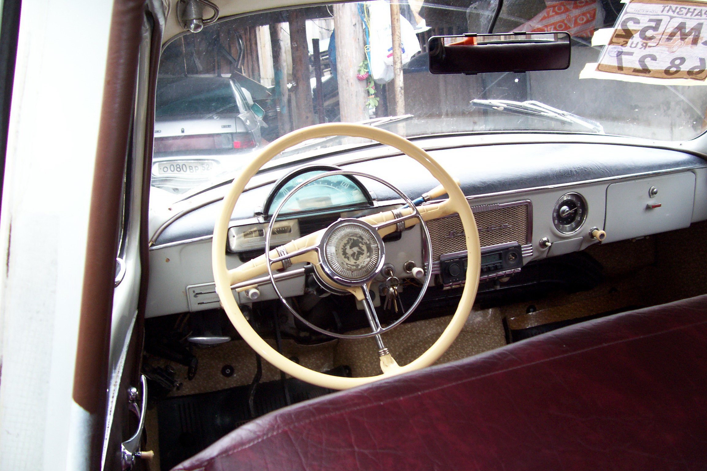 Soviet Volga GAZ-21 interior. '63 car. Photo by Stanislav Alexeyev aka DL24, 2007. No (C).